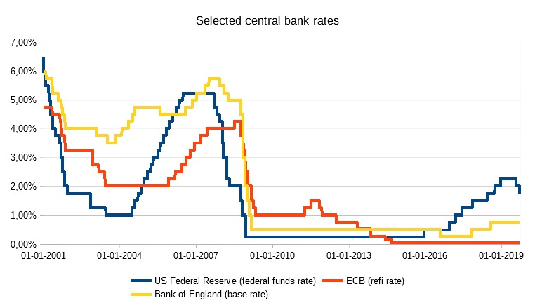 Main rates of Federal Reserve, ECB and Bank of England from 2001. Source: websites of Fed, ECB and BoE. Used on Kredietcrisis. I will try to update this graph periodically.